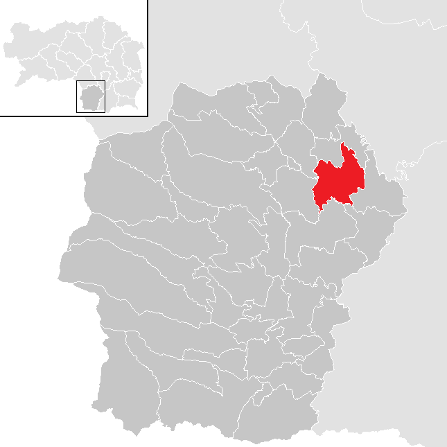 District Deutschlandsberg, Styria, Austria